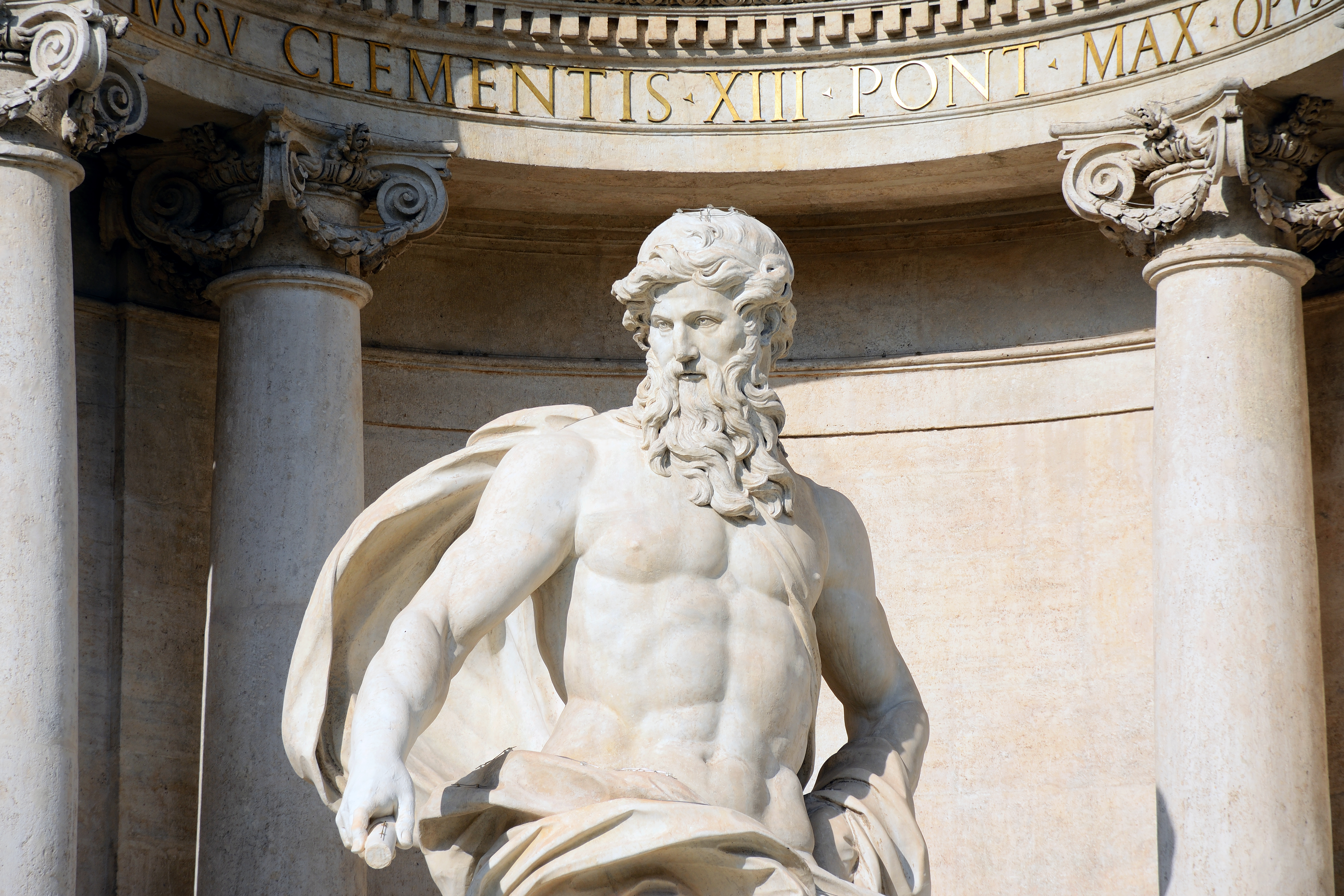 Trevi Fountain (Rome) - Oceanus Front view